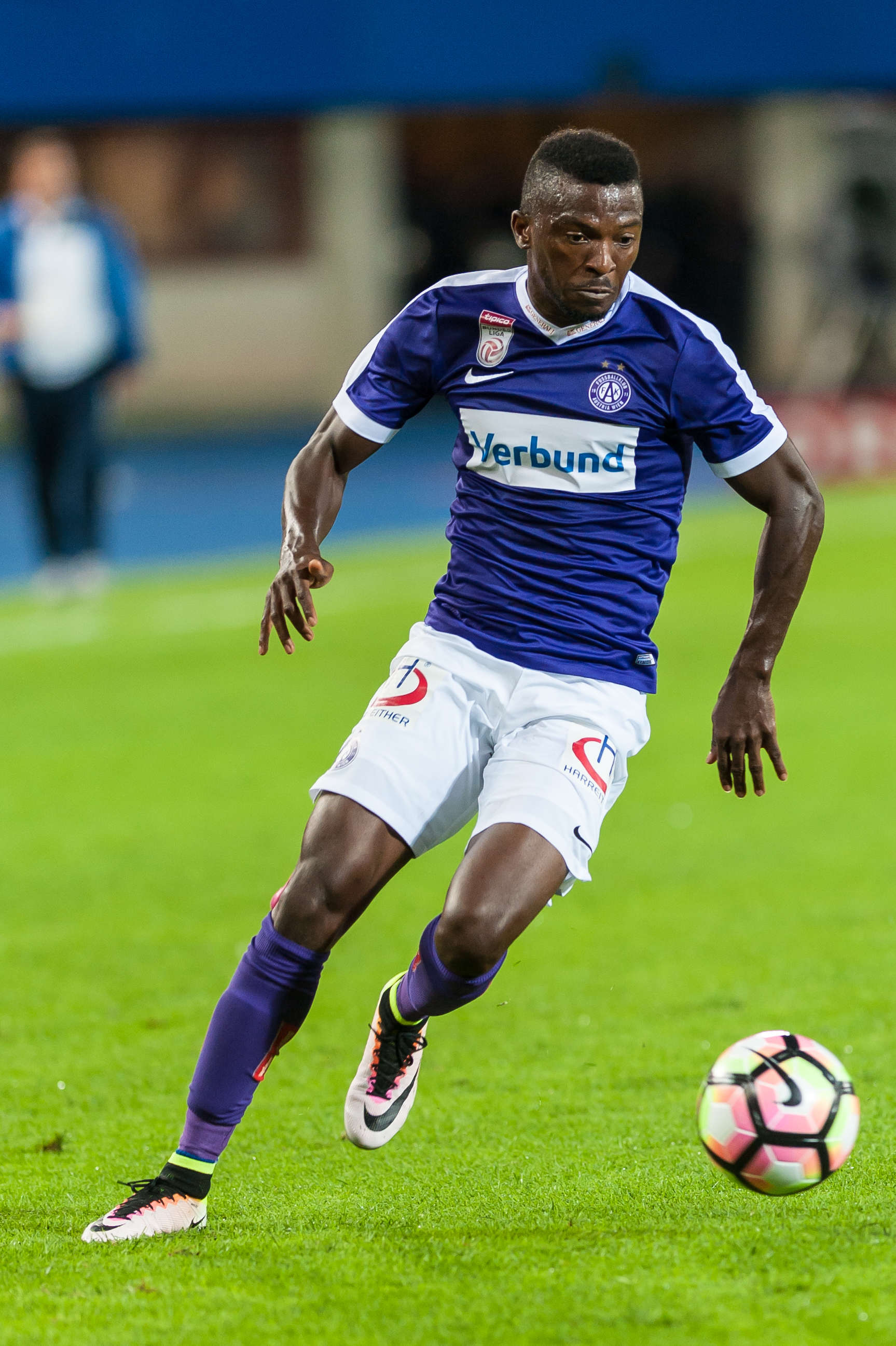 UEFA Europa League - FK Austria Wien vs FK Kukesi, 2016-07-14.